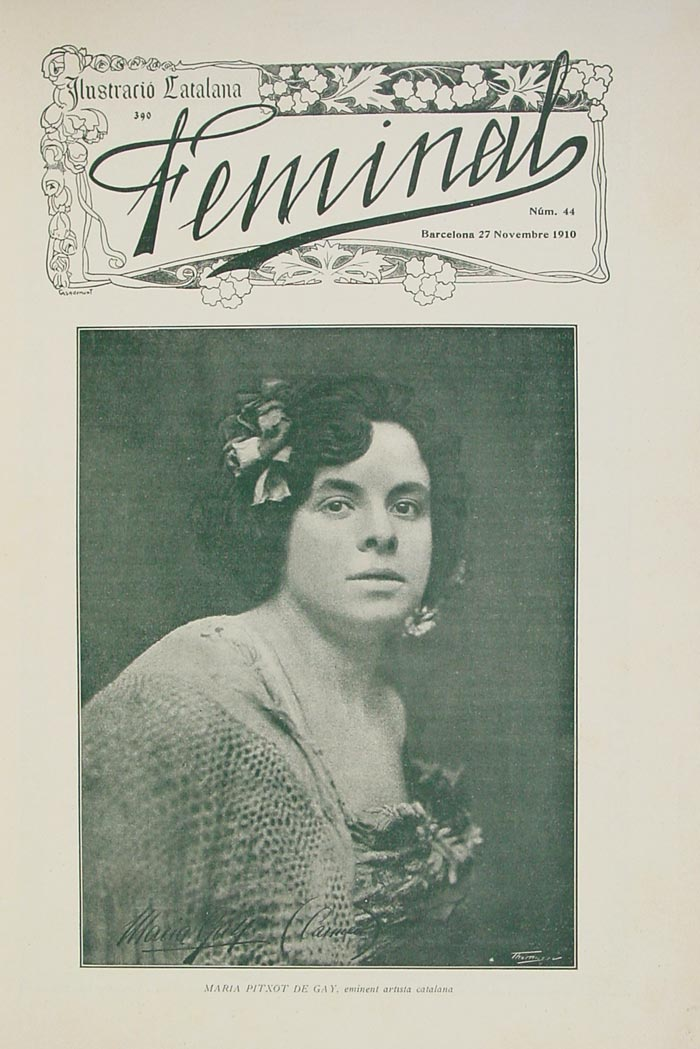 Feminist catalan magazine